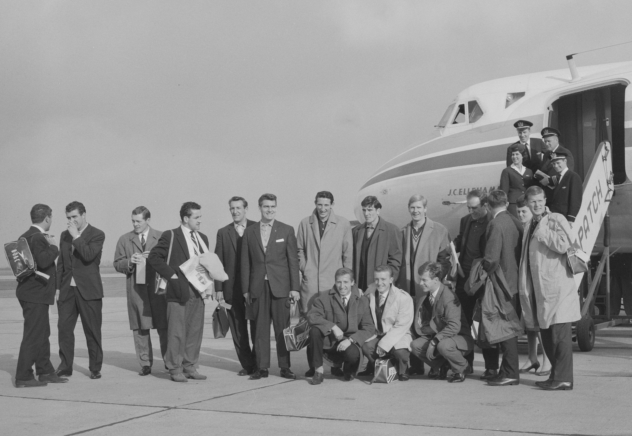 The Tottenham Hotspur team arriving in Rotterdam for a match with Feyenoord in 1961, team include Bill Brown, Ron Henry, Peter Baker, Maurice Norman, Danny Blanchflower, Tony Marchi, John White, Cliff Jones, Terry Dyson, Frank Saul, Edward Clayton